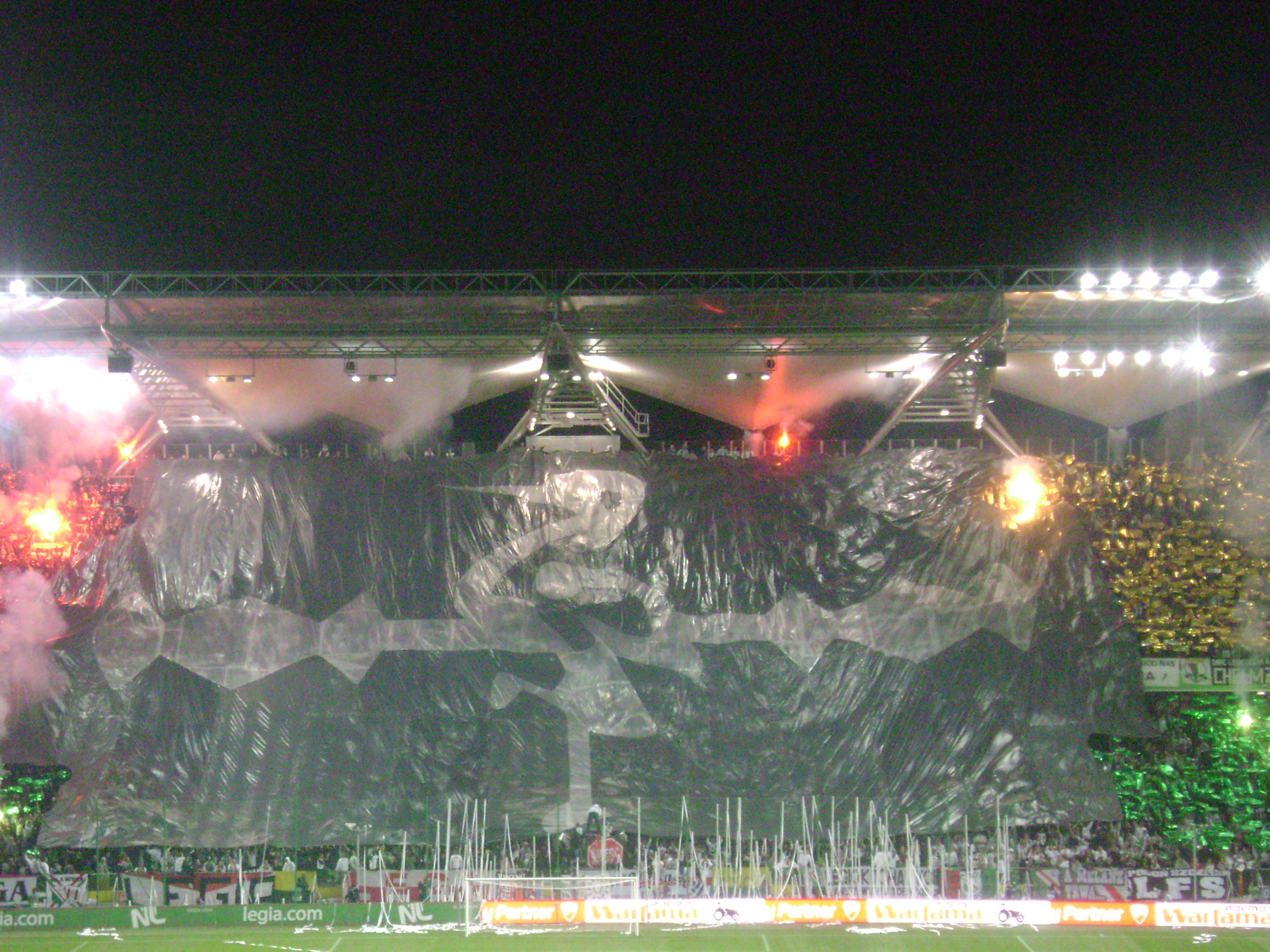 Charity football match Legia - Den Haag, 10-10-2010